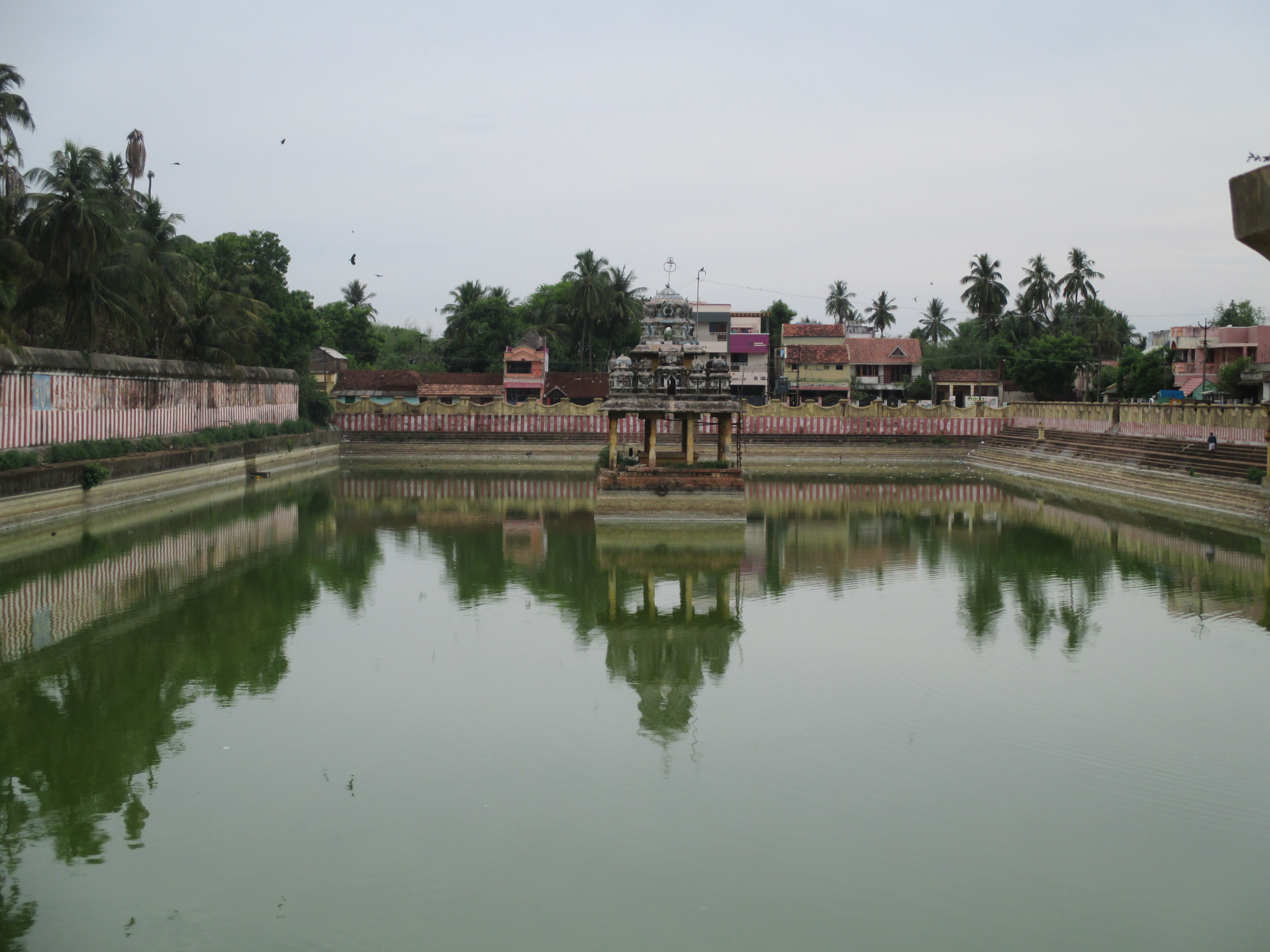 Nachiar Kovil